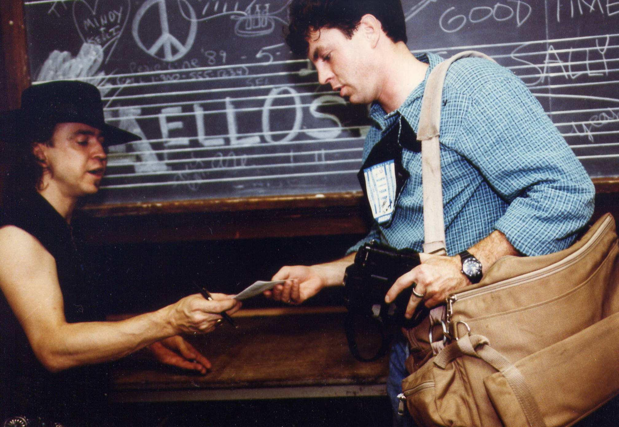 Stevie Ray Vaughan signing an autograph for a fan after Double Trouble's show in Minneapolis, MN on October 25, 1989 on their In Step Tour